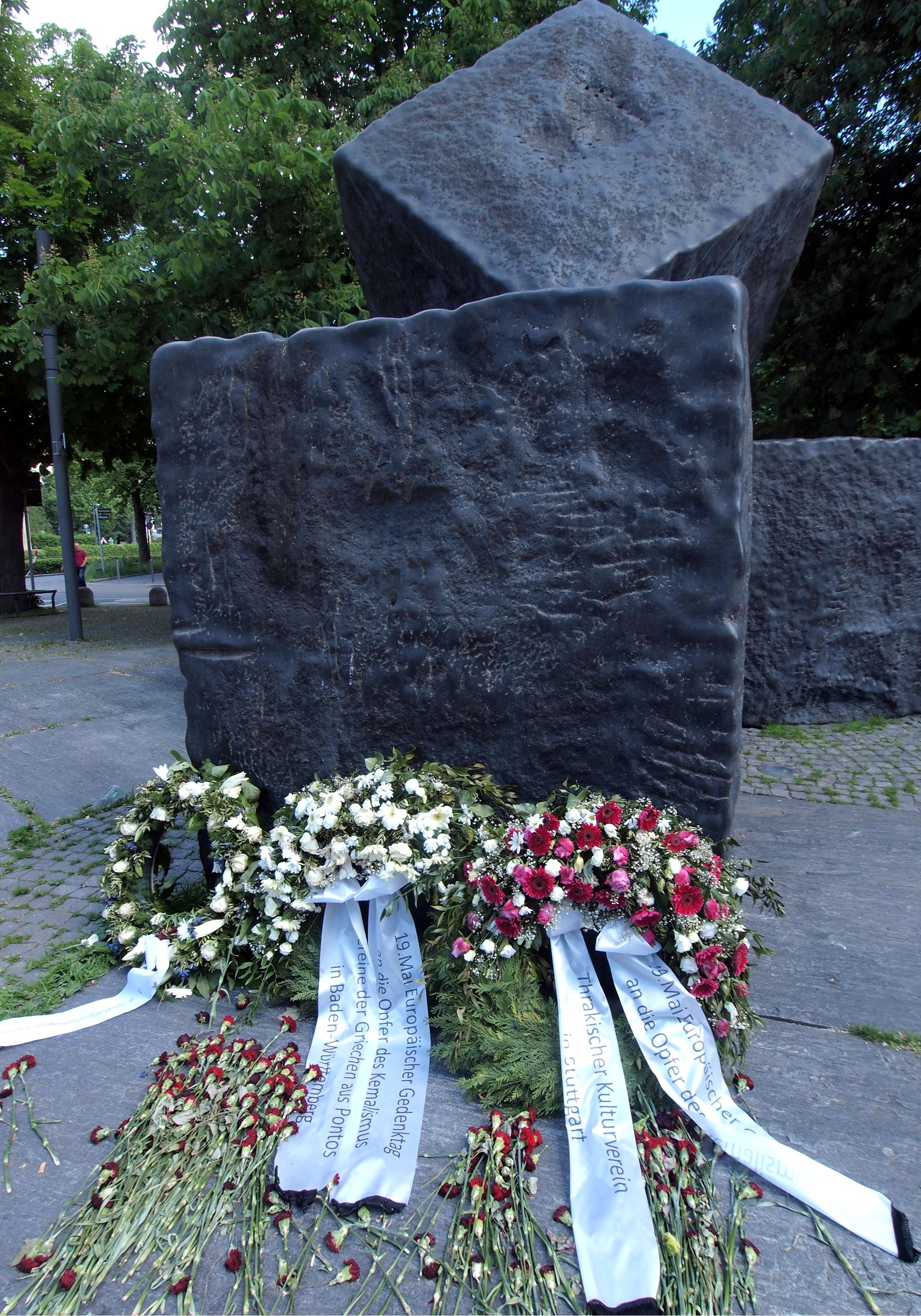 Memorial for victims of National Socialism in Stuttgart, Germany, built in 1970. The wreaths commemorate victims of Kemalism.